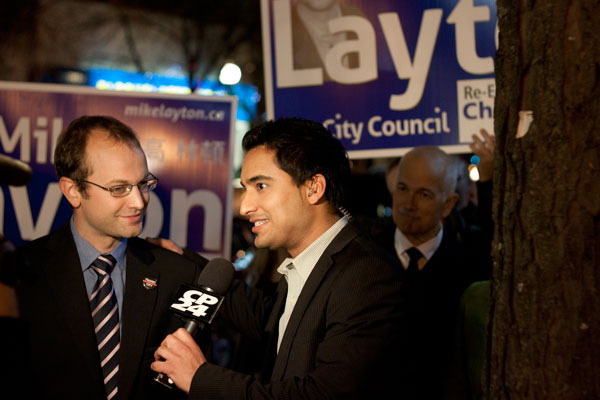 Mike Layton being interviewed by CP24's Gurdeep Ahluwalia while father Jack Layton looks on.